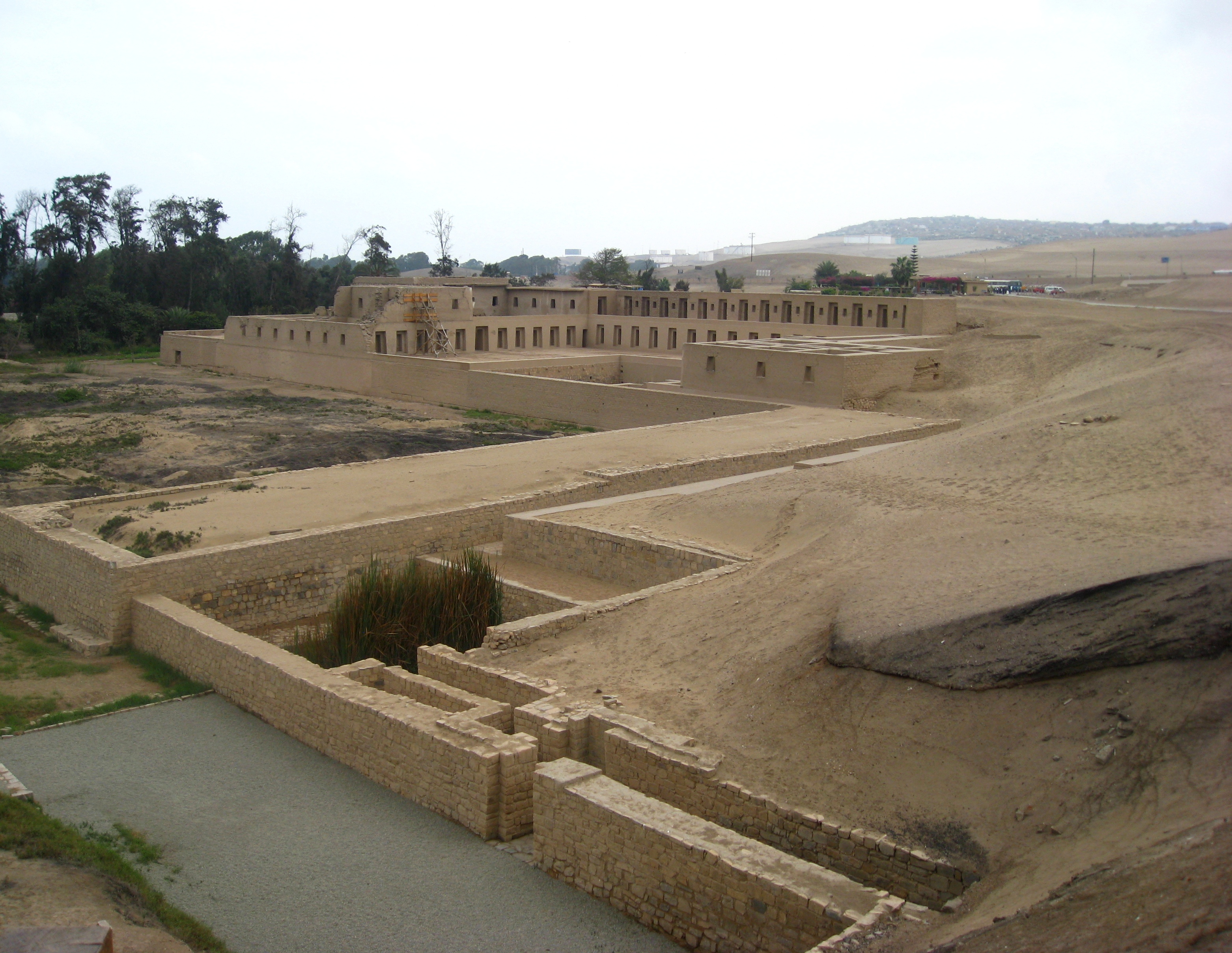 Mamacona, House of the Sun Virgins, from the Pachacamac ruins in Peru.